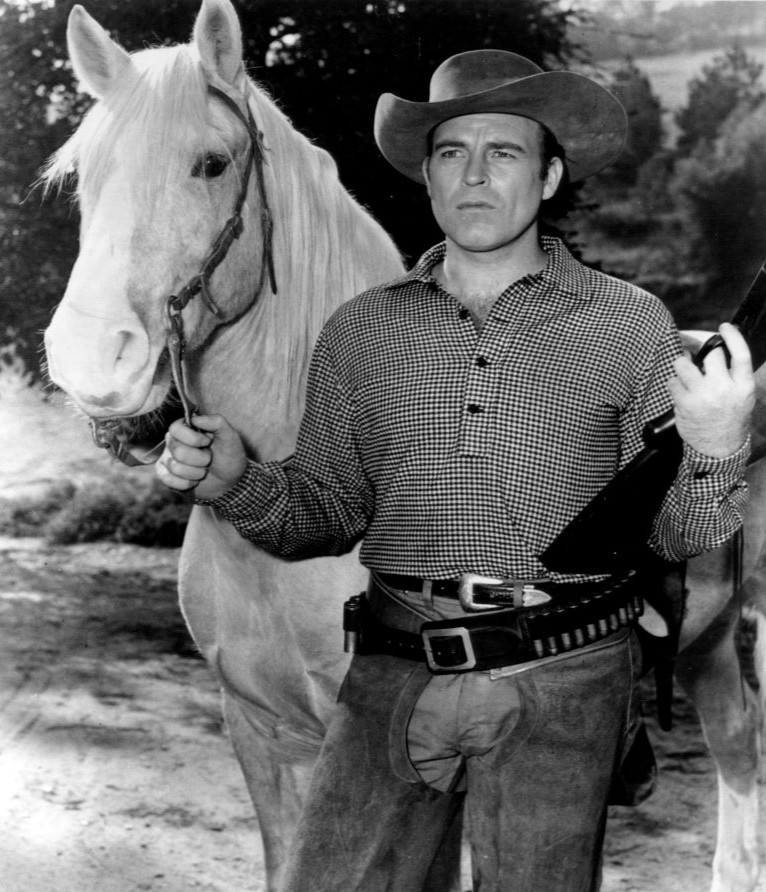 Photo of Scott Brady as Shotgun Slade from the television program of the same name.